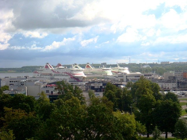 Tallinn Port, seen from the rooftop of the Estonian Maritime Museum.